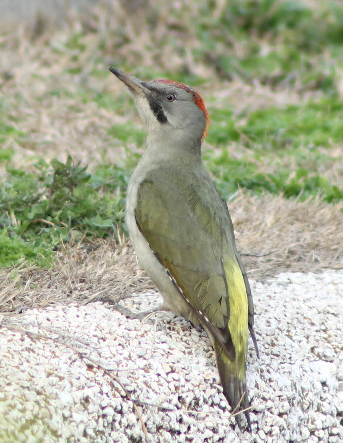 A female Iberian Woodpecker (Picus sharpei) in Madrid (Spain).